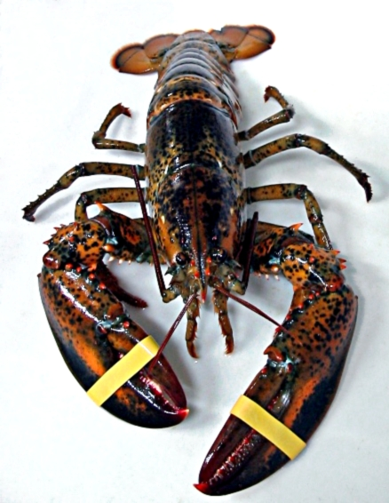 homarus americanus